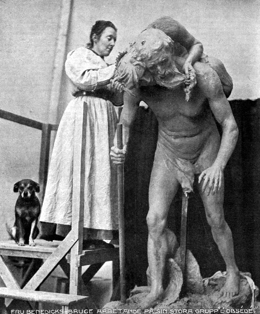 Carolina Benedicks-Bruce with her sculpture L'obsède 1910